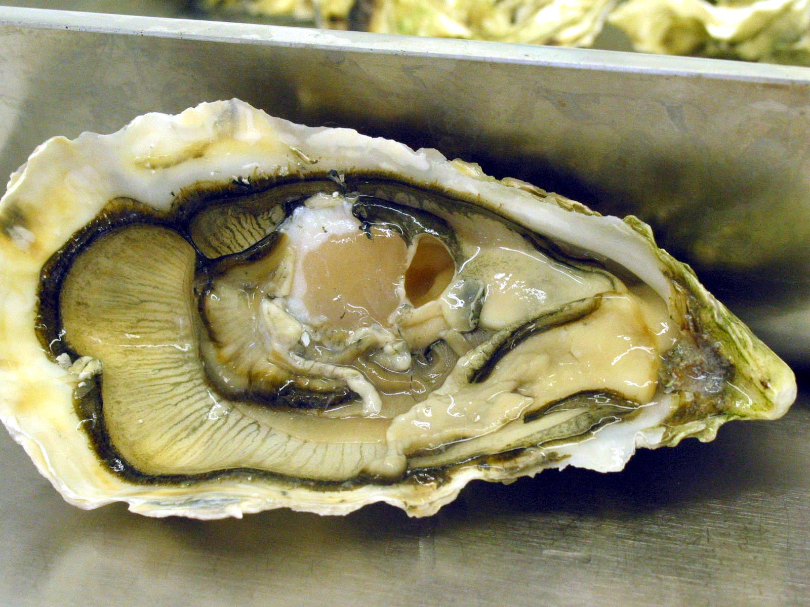 Crassostrea gigas after heart extraction